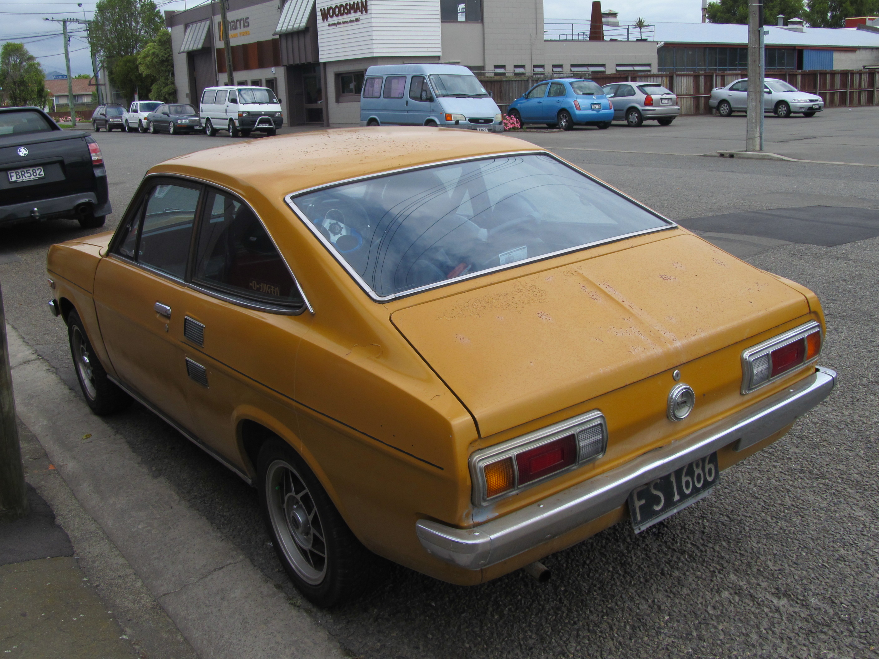 FS1686 These look like quite a few other coupes of the time from the rear, but I can't quite put my finger on which ones! As you can see this isn't completely standard...